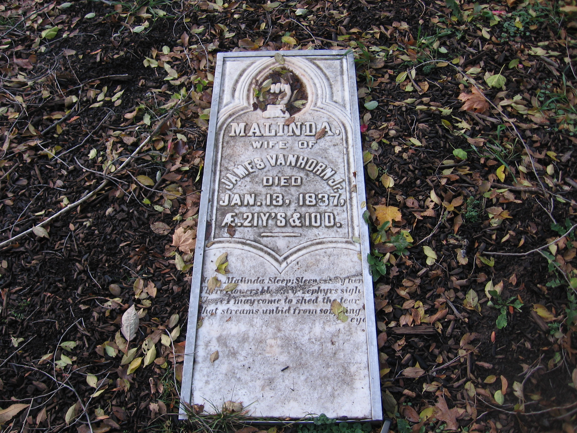 This is the grave stone of Malinda Van Horn which is visible within the rose garden at the east side of the Van Horn Mansion.